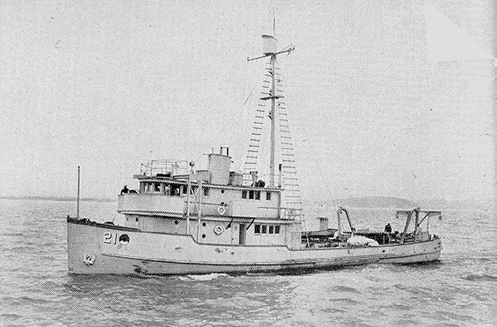 Killdeer (IX 194)